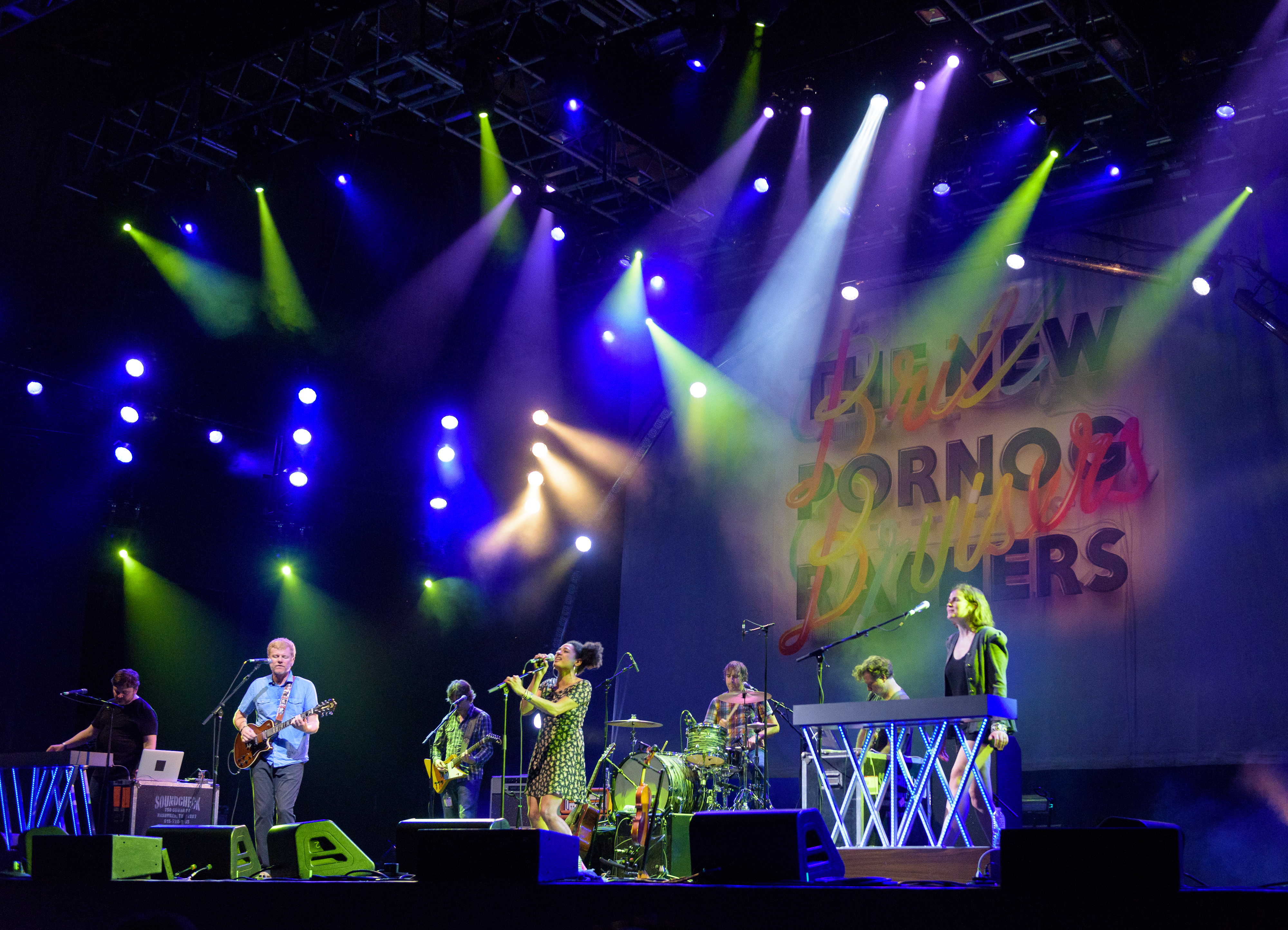 July 11, 2015 Prospect Park Bandshell Celebrate Brooklyn Brooklyn, NY